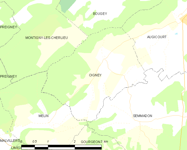 Map of French municipality